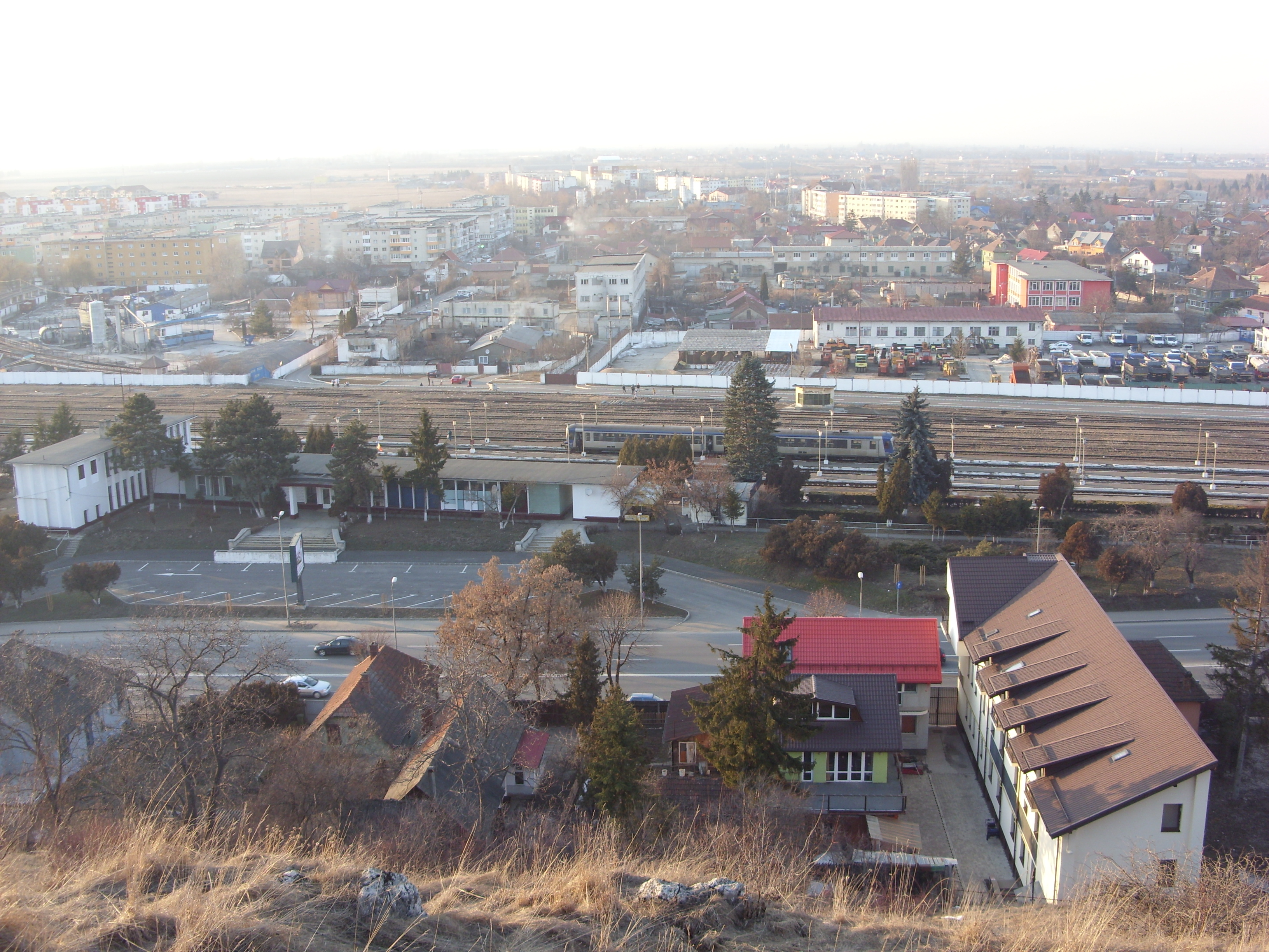 New Bartolomeu train station, Brasov, Romania